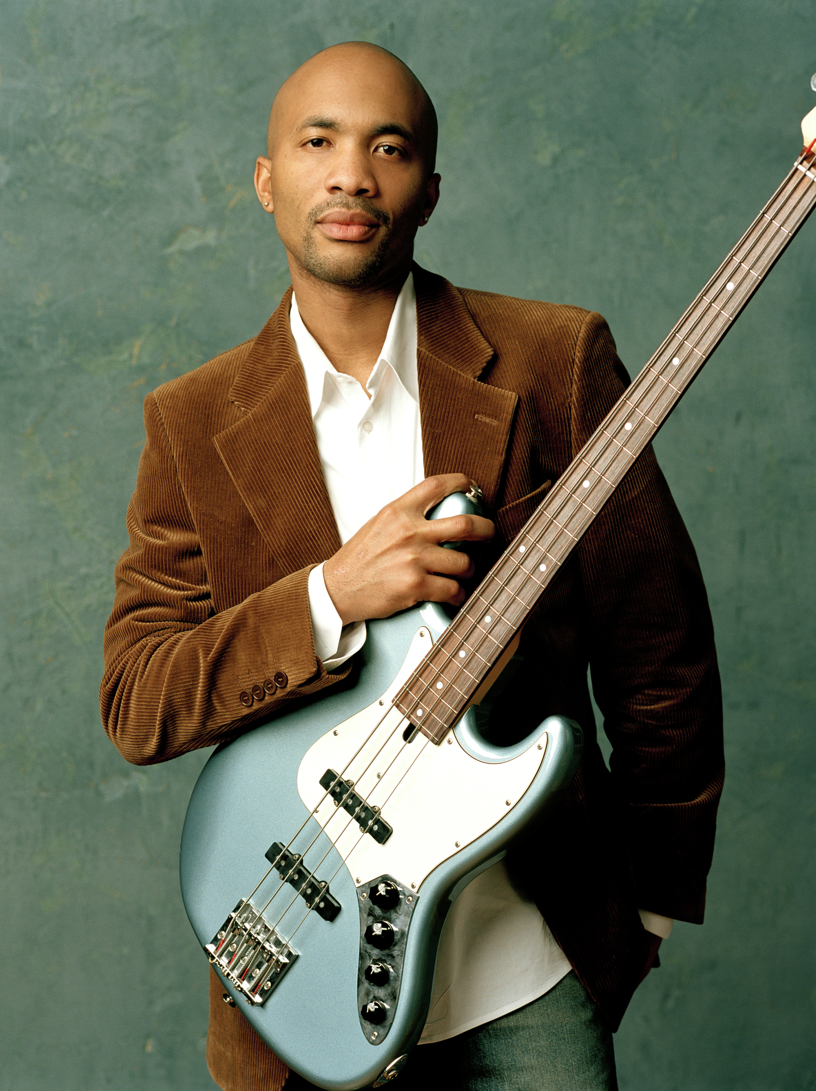 promotional photo from with explicit permission from author Reuben Rogers